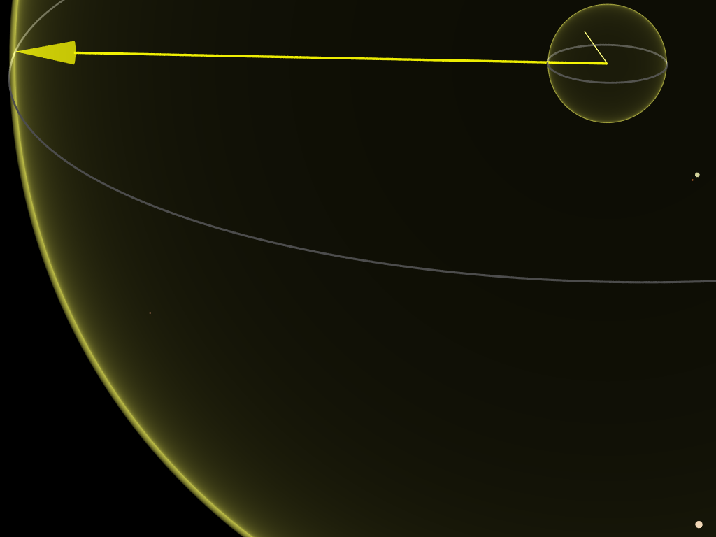 Comparison of sizes of objects with order of magnitude 1e16m: ten light year radius shell with yellow Vernal Point arrow; below, white star Sirius 8.5 light years from Sun; on left, BL Ceti 8.73 light years distant; middle right, Proxima and Alpha Centauri about 4 light years distant; light year shell with Great January comet (Comet C/1910 A1)'s orbit shown as long extreme ellipse inside. All distances to scale, but stars are artificially enlarged for illustrative purposes only. No transparency version.